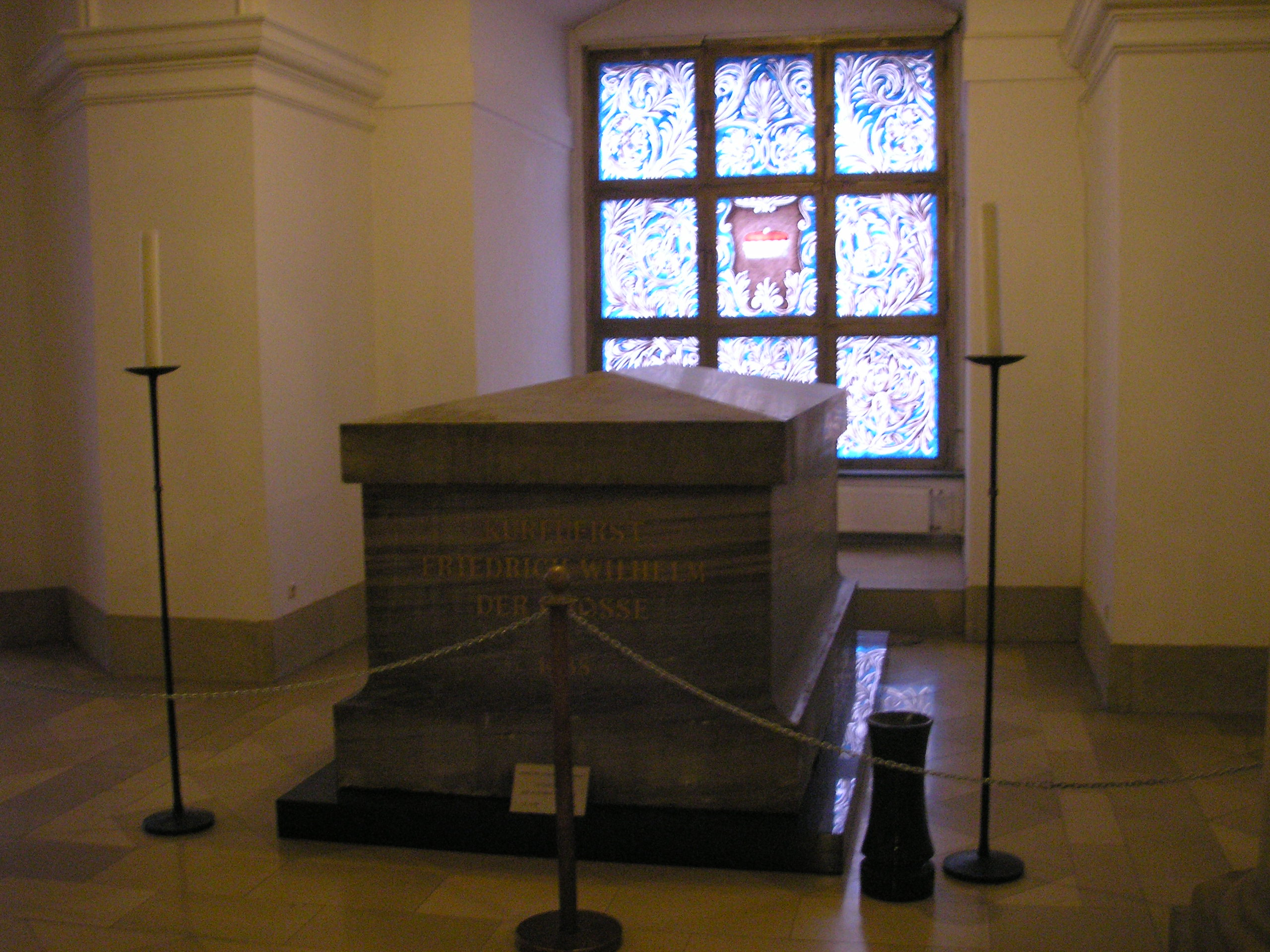 Description: Tomb of Elector Friedrich Wilhelm I of Brandenburg (also known as der Große Kurfürst). Located in the Hohenzollern crypt in the Berliner Dom. Source: self-made, I release it into the public domain. Gryffindor 15:42, 11 April 2006 (UTC)